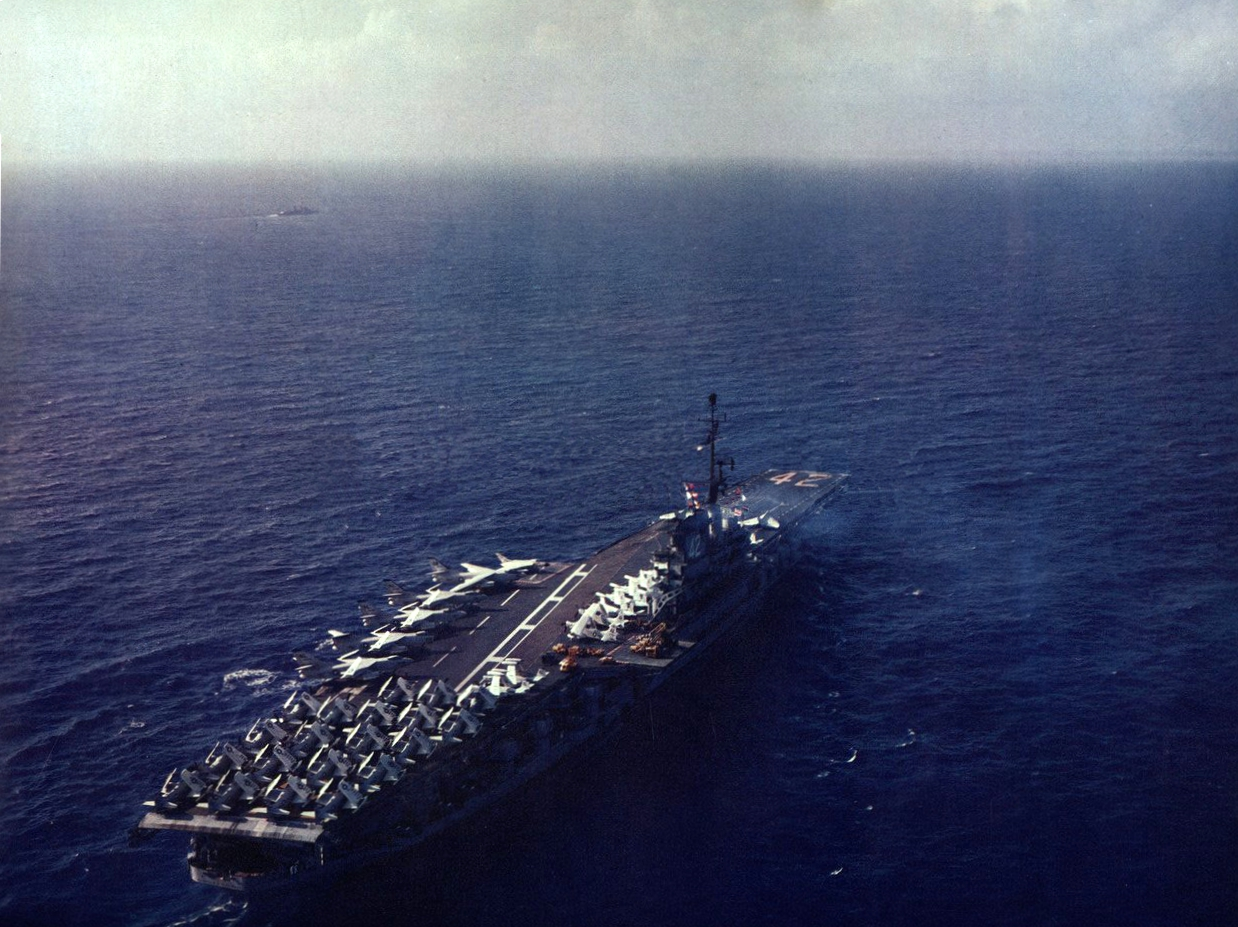 The U.S. Navy aircraft carrier USS Franklin D. Roosevelt (CVA-42) underway. FDR, with assigned Carrier Air Group 17, was deployed to the Mediterranean Sea from 12 July 1957 to 5 March 1958.